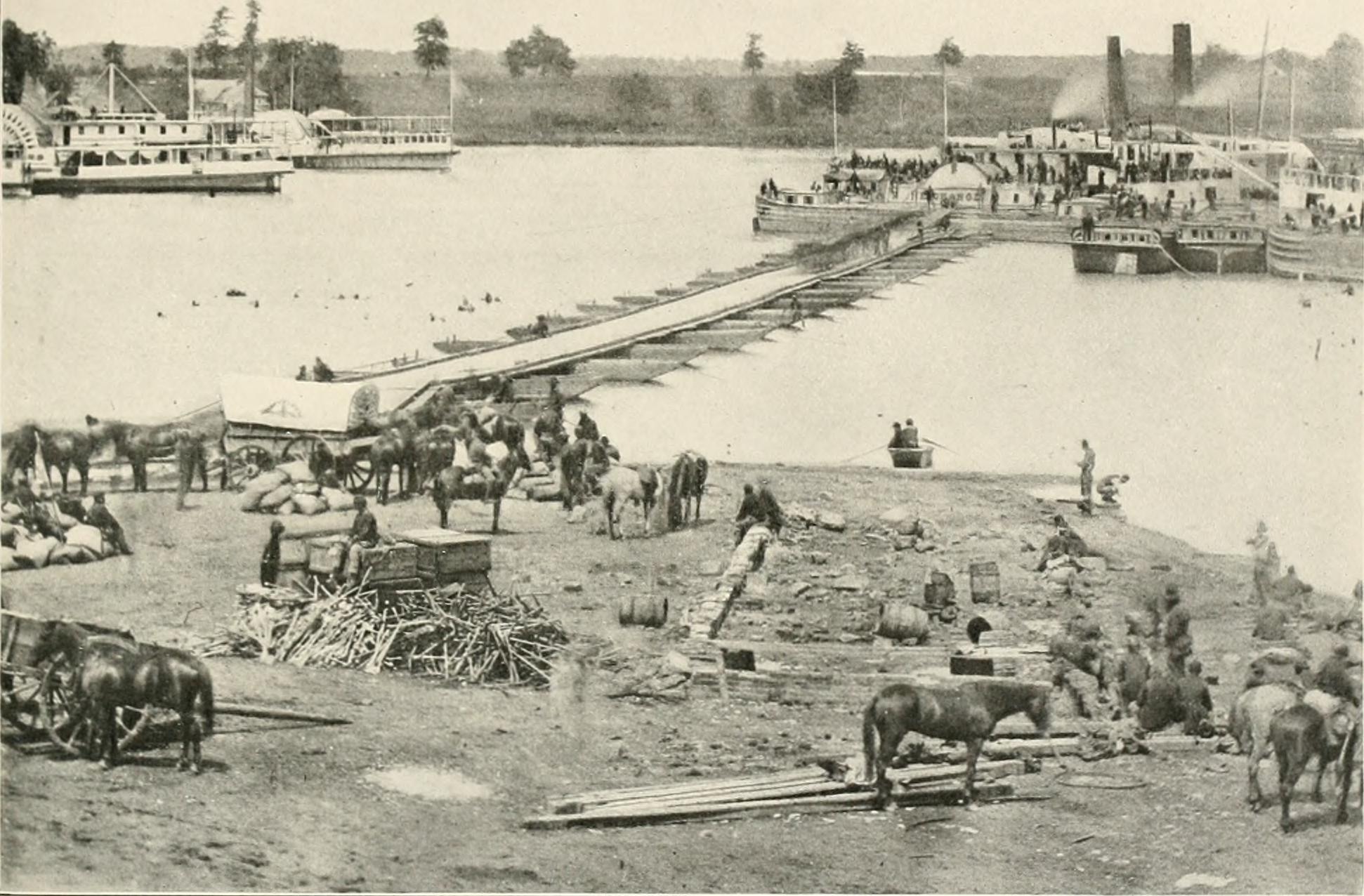 Title: The photographic history of the Civil War : thousands of scenes photographed 1861-65, with text by many special authorities Year: 1911 (1910s) Authors: Miller, Francis Trevelyan, 1877-1959 Lanier, Robert S. (Robert Sampson), 1880- Subjects: United States -- History Civil War, 1861-1865 Pictorial works United States -- History Civil War, 1861-1865 Publisher: New York : Review of Reviews Co. Text Appearing Before Image: ' Text Appearing After Image: COPYRIGHT, 1911, PATRIOT PUB. CO. THE EVACUATION OF PORT ROYAL NEARLY COMPLETED This photograph, taken shortly after the one jireceding, witnesses how quickly an army accomplishes itsmovements. The pontoon-l)riclge leading oiit to the boats has been practically cleared; all but a few of thegroup of cavalrymen have ridden away, and the transports are whistling all aboard, as can plainly beseen from the sharp jets of steam. A few of the cavalry remain with the headquarters wagon which standsnear the head of the pontoon. Sterner work awaits the troopers after this peaceful maneuver. Grantneeds every man to screen his infantry in its attempt to outflank the brilliantly maneuvered army of Lee. Y m rtimm/w/AiMd l^xhc o^lirniixjlr tlir iFriirral IGturii IT •** ^-In _Jk^^^^S!E: ^ ^